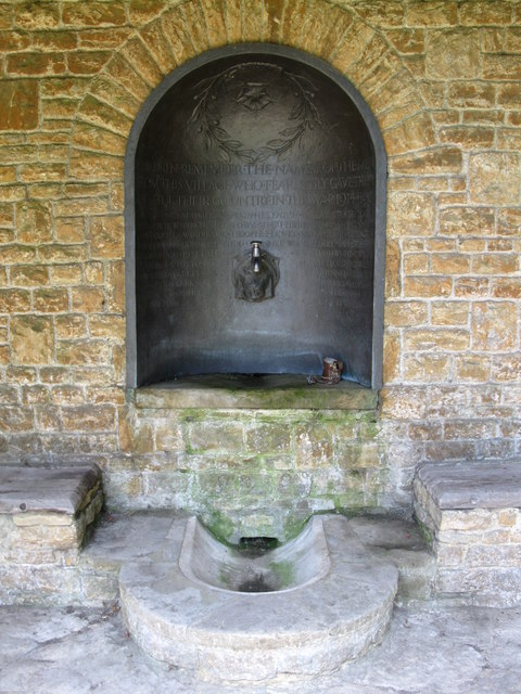 War memorial water fountain The fountain is in working order and an ancient metal cup is provided.